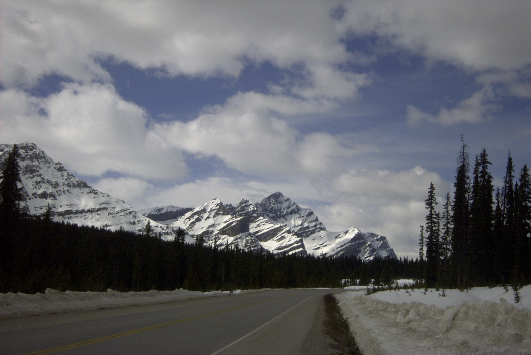 Picture from the Icefields Parkway